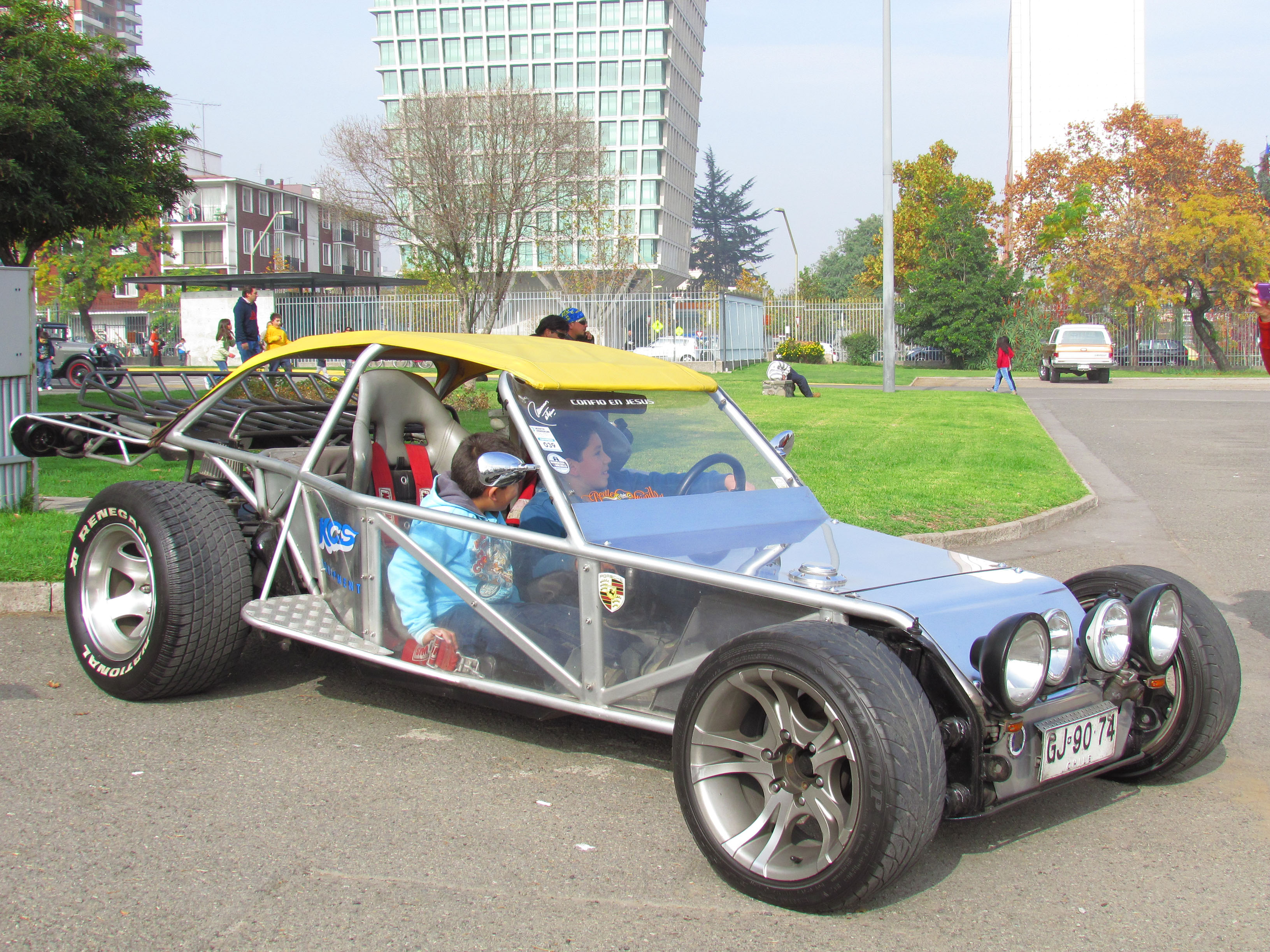 Patrimonio sobre ruedas 2013. Kitcar with Porsche engine